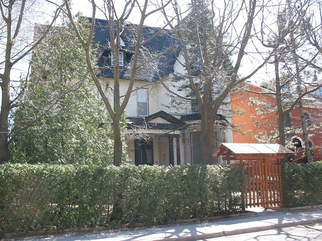 Zen Buddhist temple, Sandy Hill, Ottawa